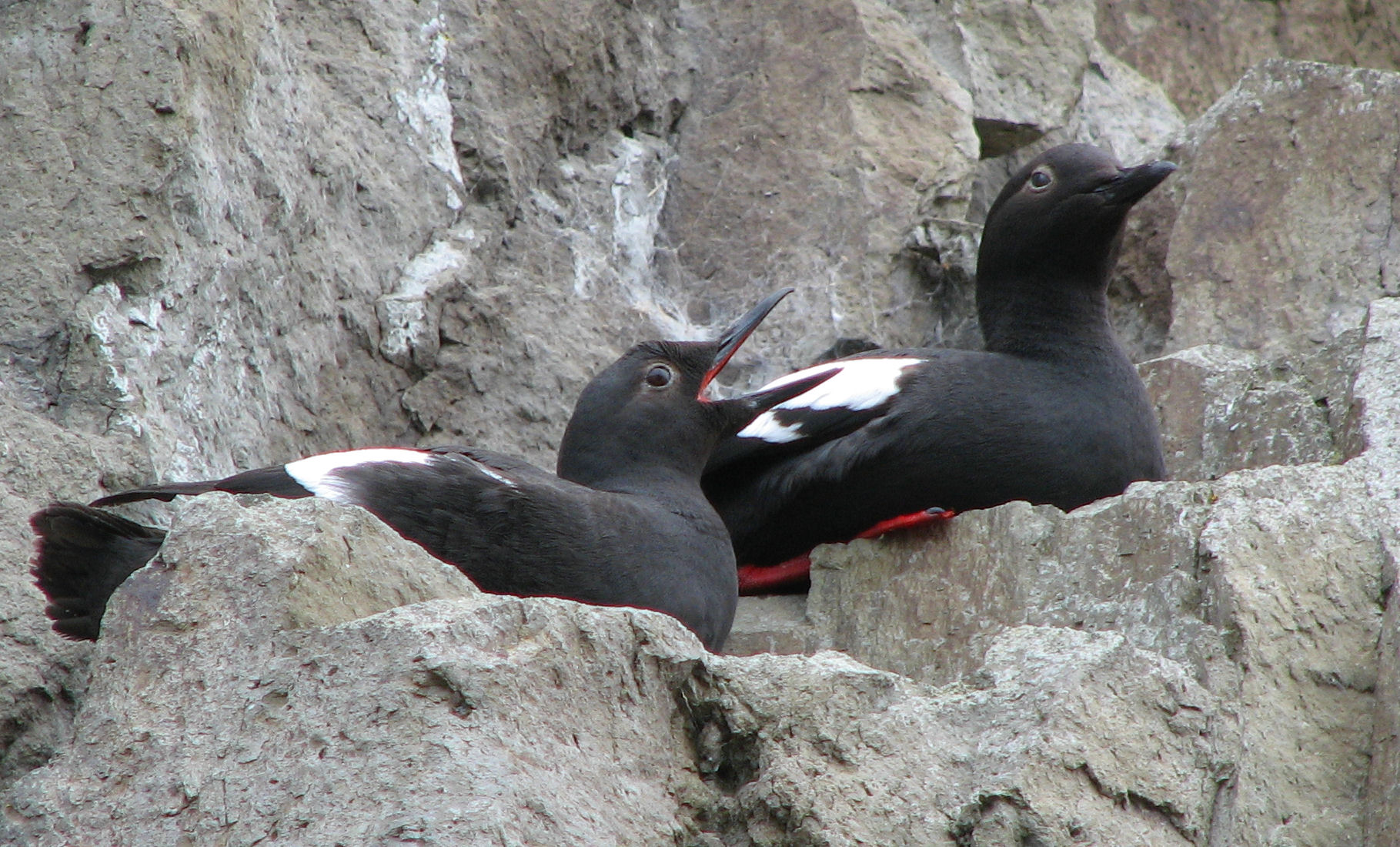 Pigeon Guillemots (Cepphus columba), Vancouver, British Columbia